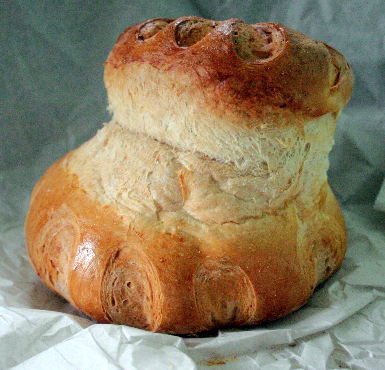 Small cottage loaf traditionally baked in a High Street bakery in Rochester, Kent